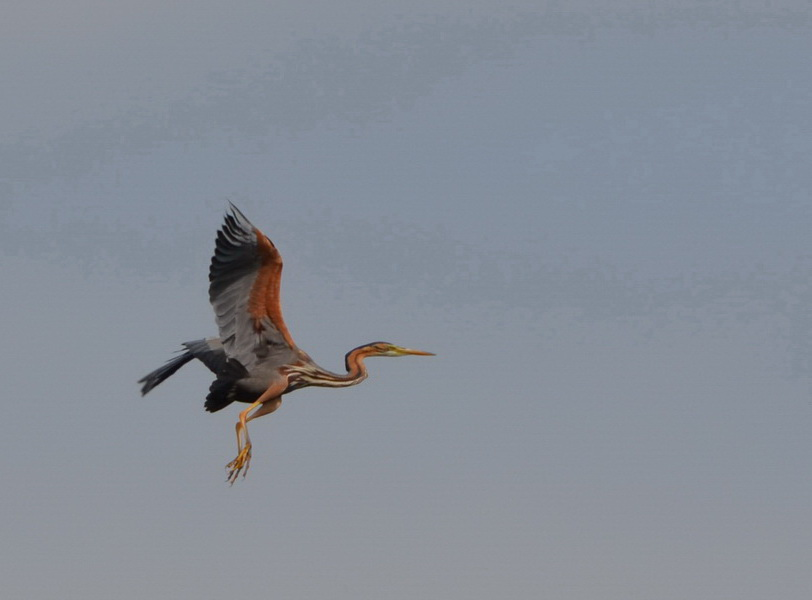 Carska bara